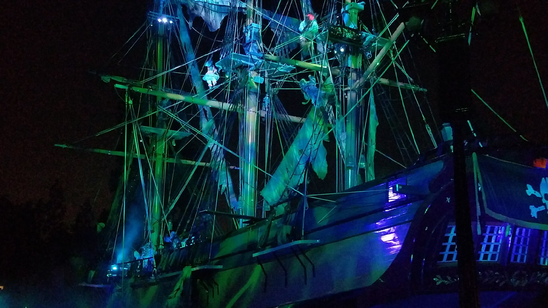 Pirates of the Caribbean Scene in Fantasmic!